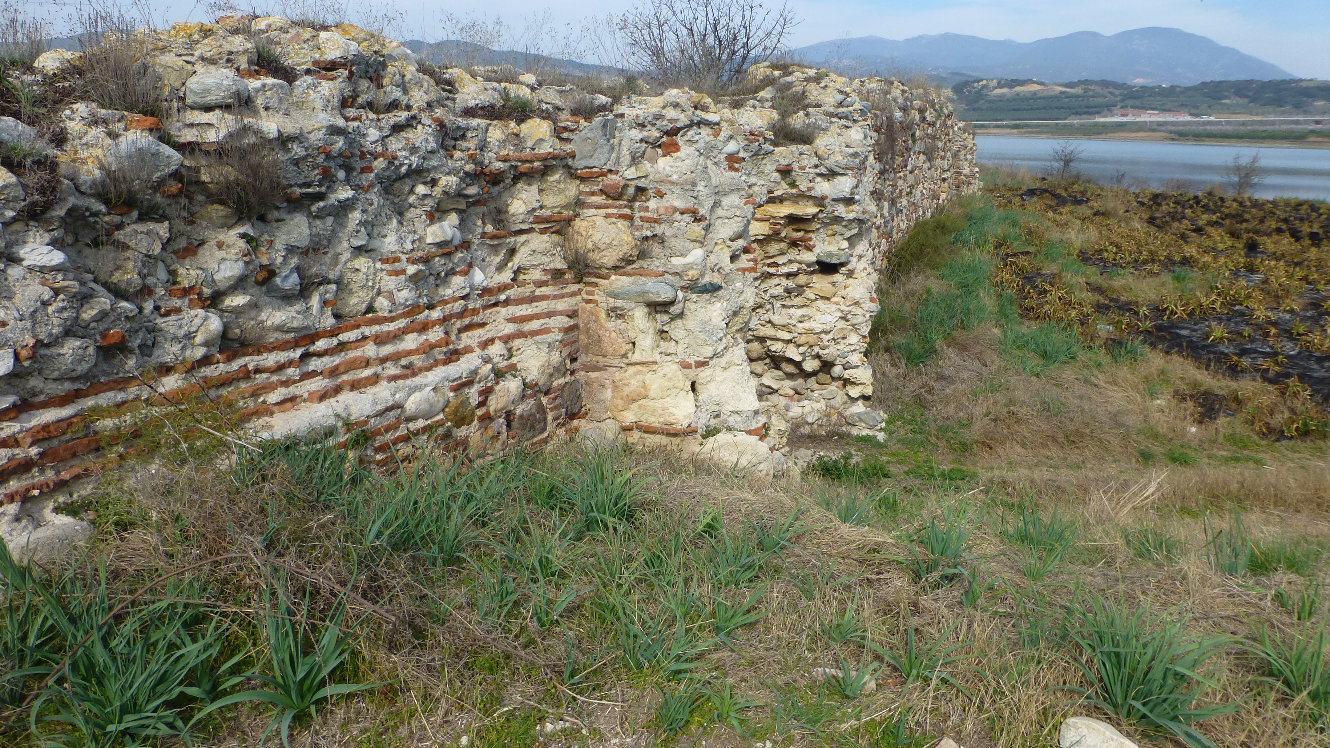 Ancient Chrysololis, Pangaion, Strymonas River